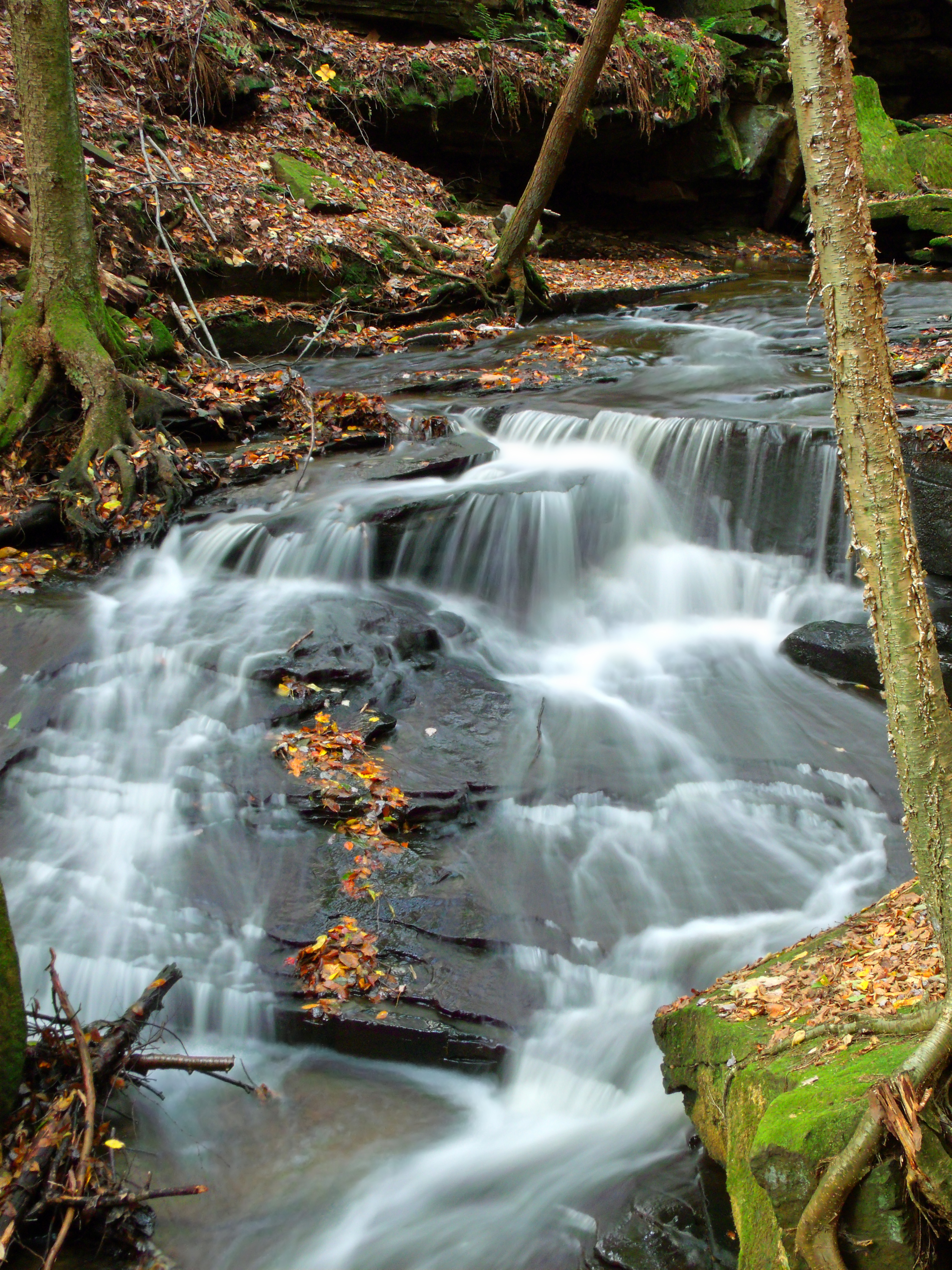 Maurice K. Goddard State Park, Mercer County. All photos from this location here.